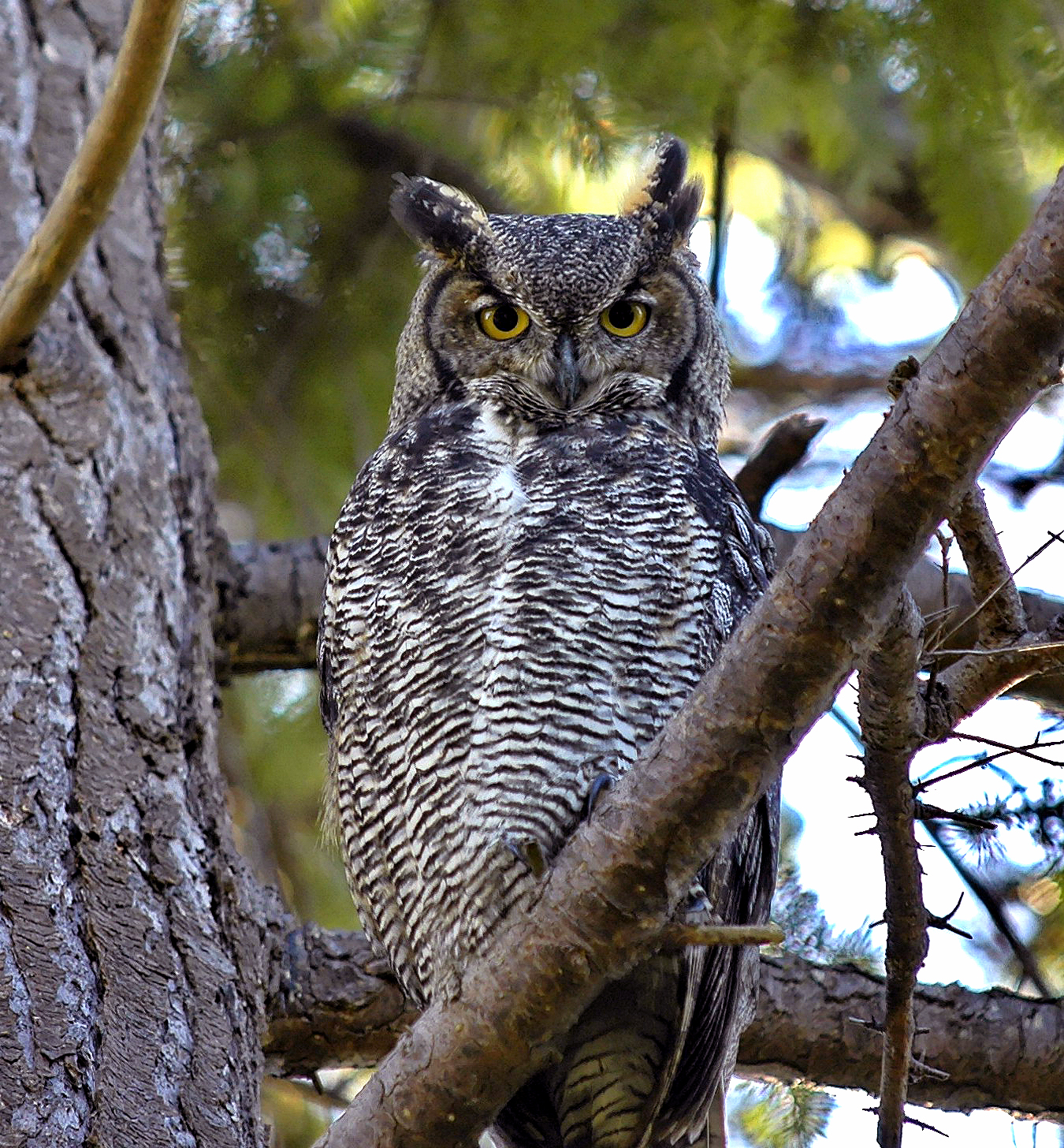 Great Horned Owl (Bubo virginianus) at Reifel Migratory Bird Sanctuary. Delta, BC, Canada.